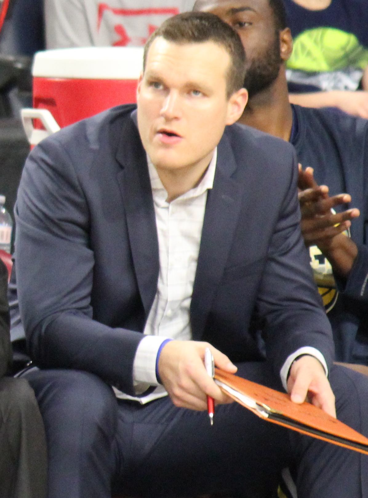 halifax